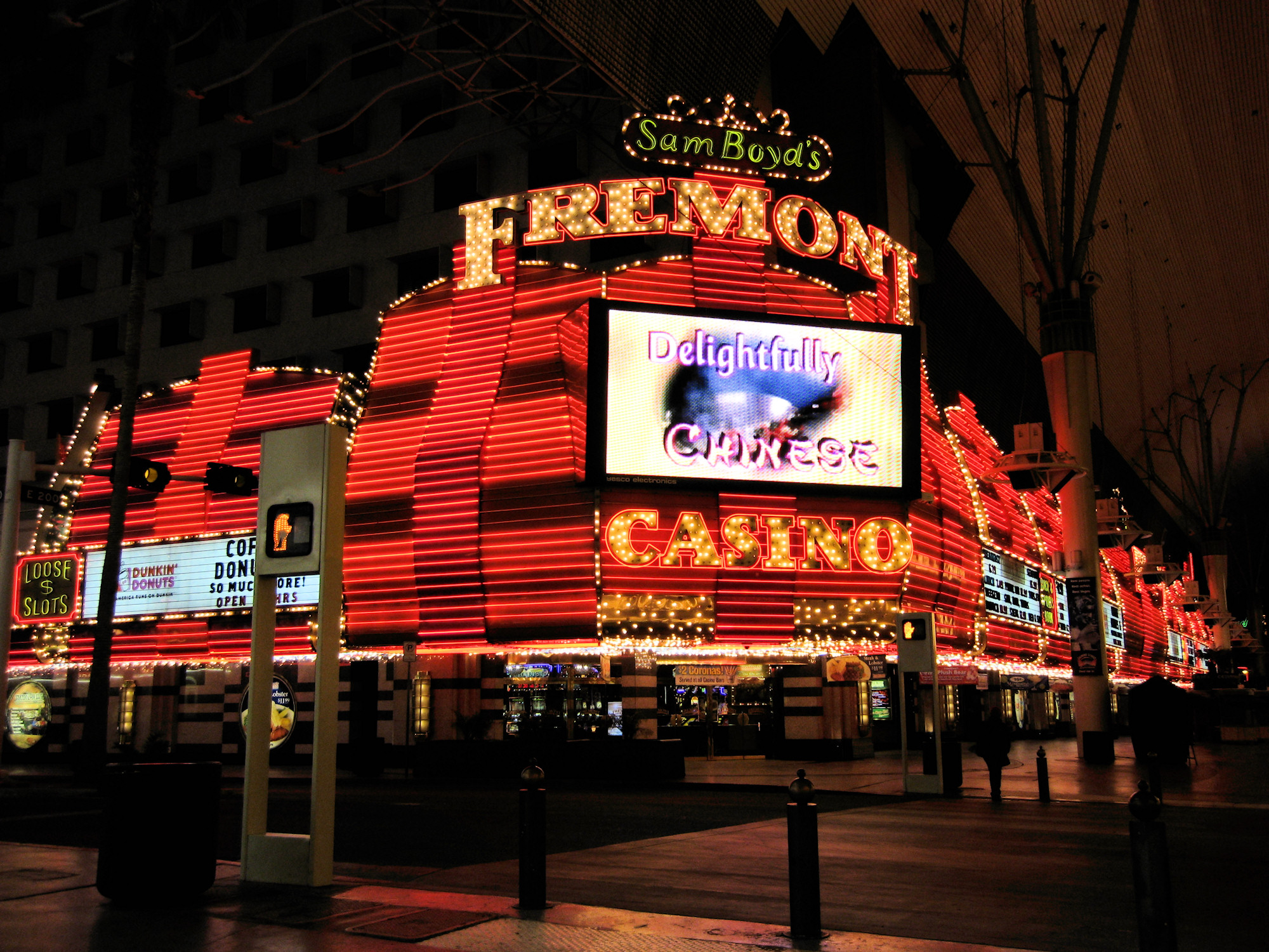 Sam Boyd's Fremont Casino — at the Fremont Street Experience on an empty night, in Downtown Las Vegas. February 2009.